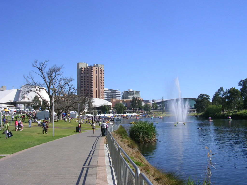 River Torrens and Elder Park